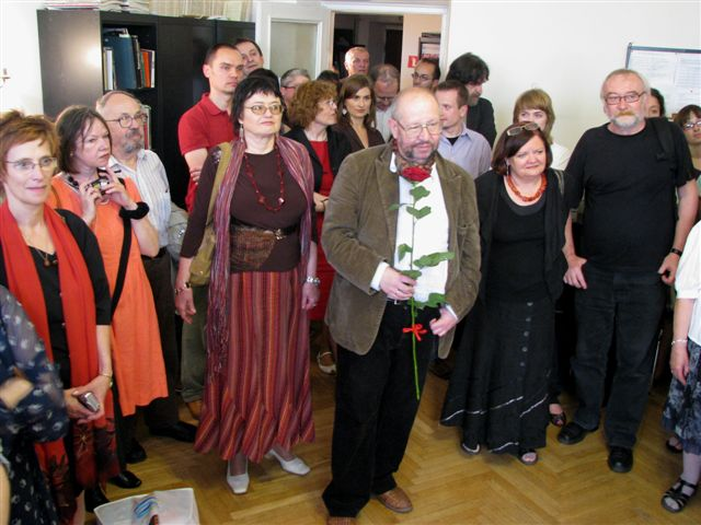 Leszek Engelking] (b. February 2, 1955 in Bytom, Poland) – Polish poet, short-story writer, critic, essayist, scholar, and translator. He lives in Brwinów, Poland.